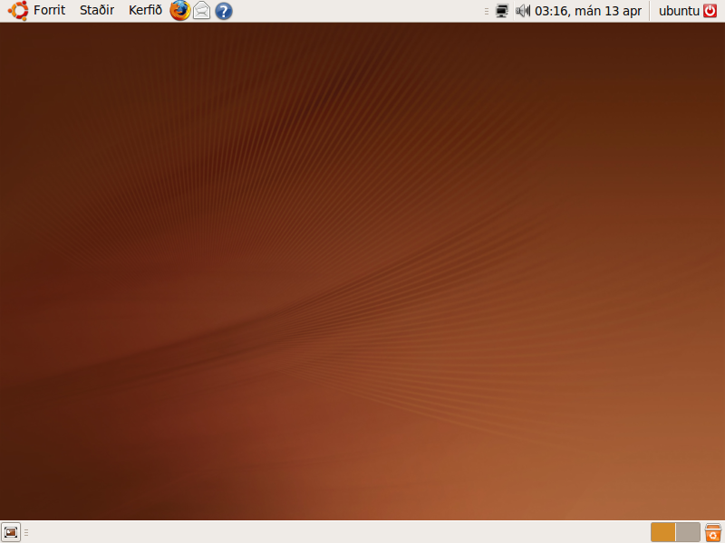 Screenshot of Ubuntu 9.04 beta.